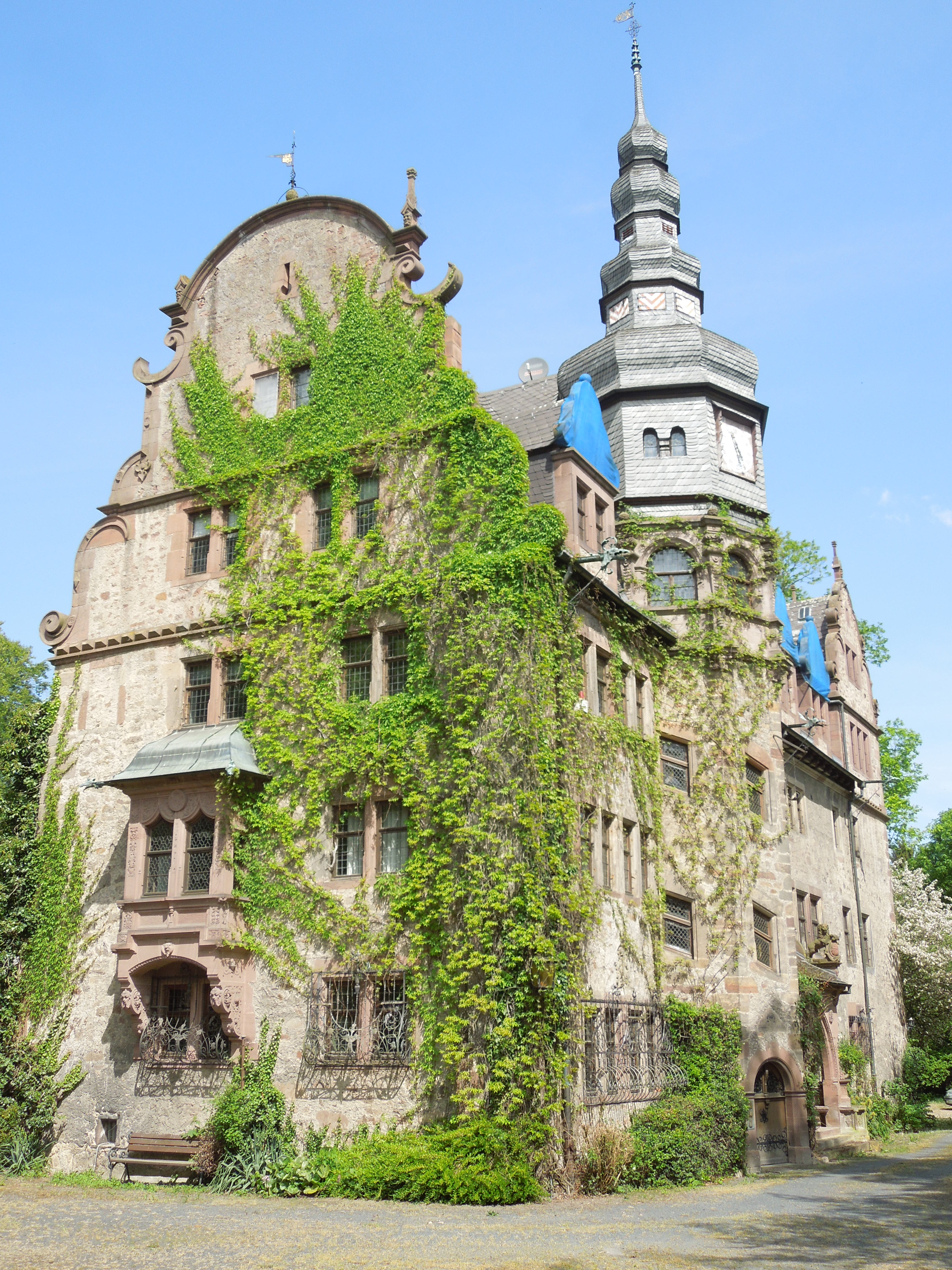 Schloss Dillich, view from southeast